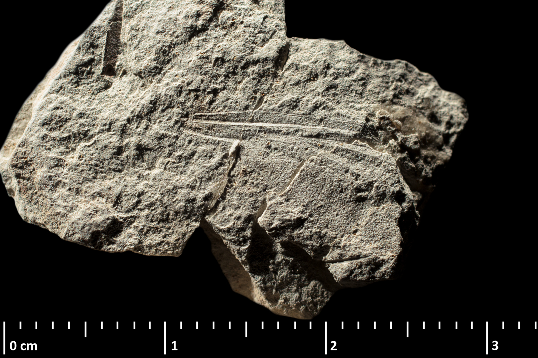 The Stenolestes hispanicus' holotype, part side with transverse lighting. Tortonian, Miocene; Bellver-en-Cerdana, Cerdana, Spain Muséum national d'Histoire naturelle specimen MNHN.F.R10376